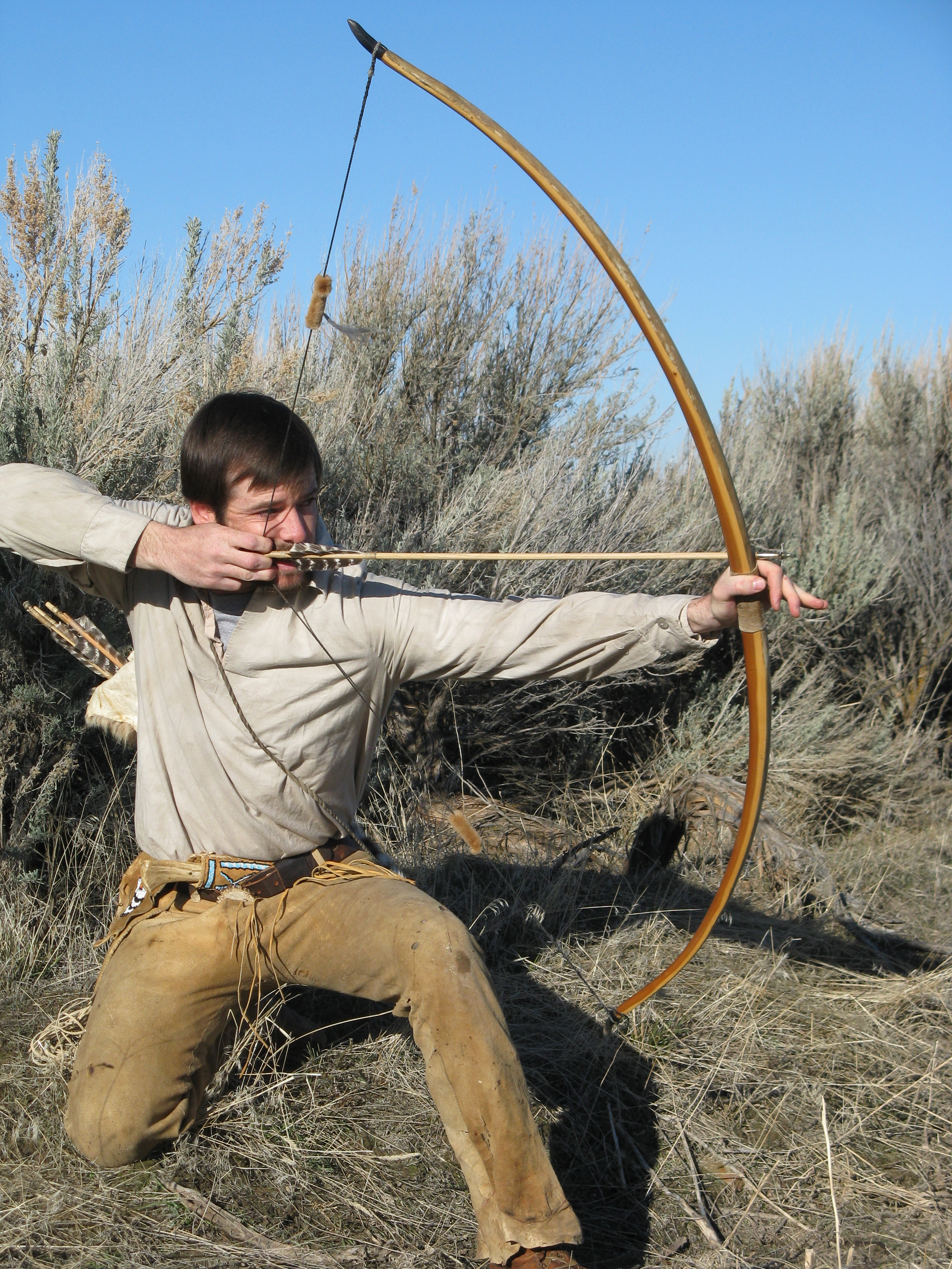 Clay Hayes drawing a yew selfbow. Selfbows are made from a single piece of wood.